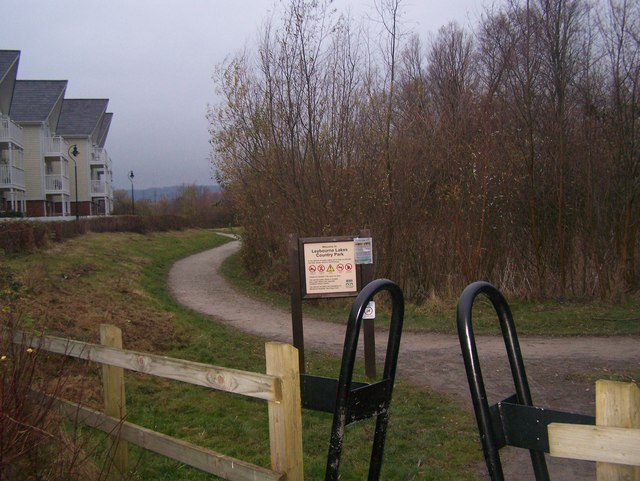 Entrance to Leybourne Lakes Country Park From Bream Close. All fishing related names in new housing estate in New Hythe. Houses seen on left of photo. Minimal gardens but nice views.